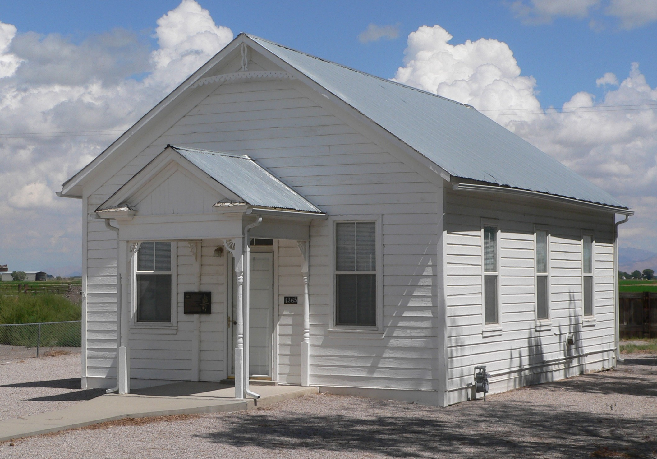 Deseret Relief Society Hall, located at 4365 S. 4000 West in Deseret, Utah; seen from the southwest.